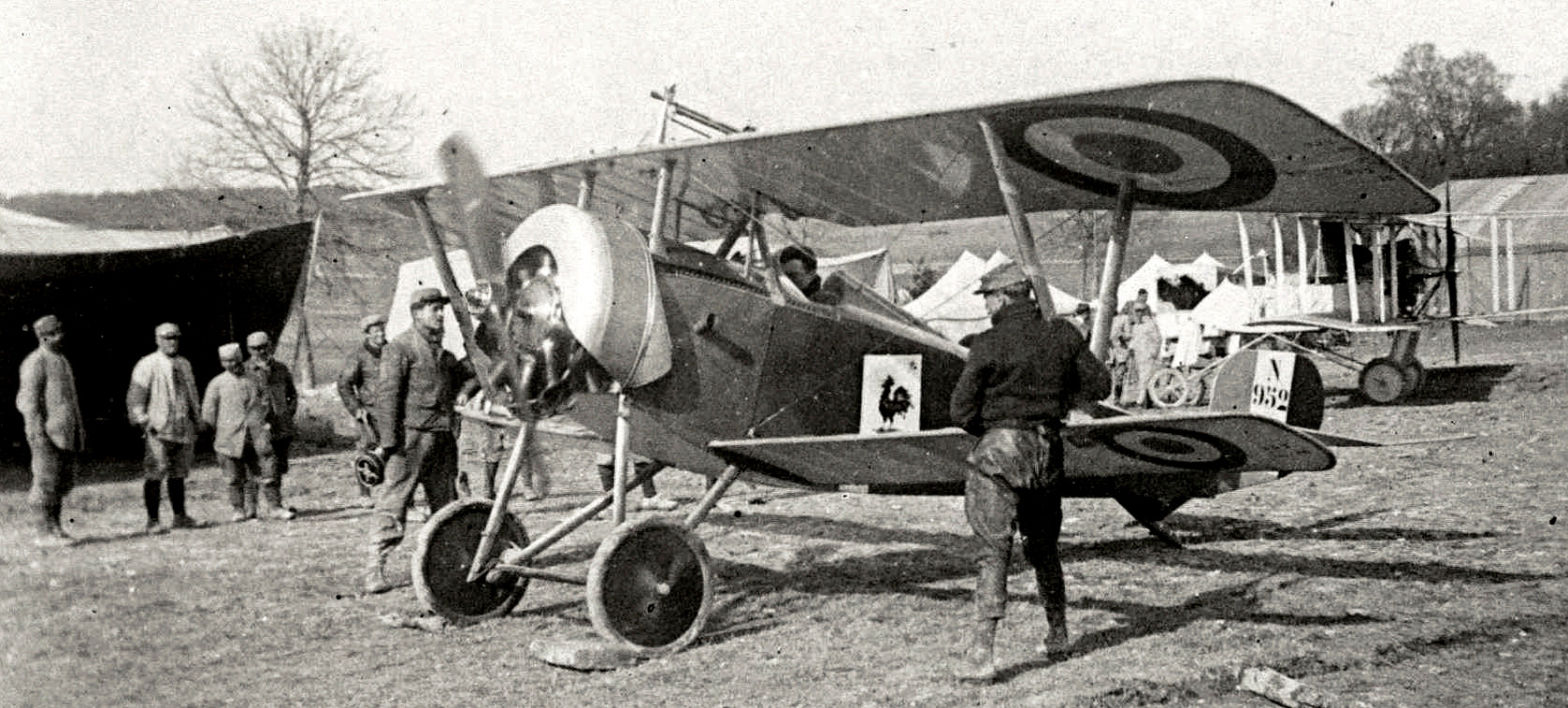 Jules Védrines in a Nieuport 16 fighter at Vadelaincourt airfield